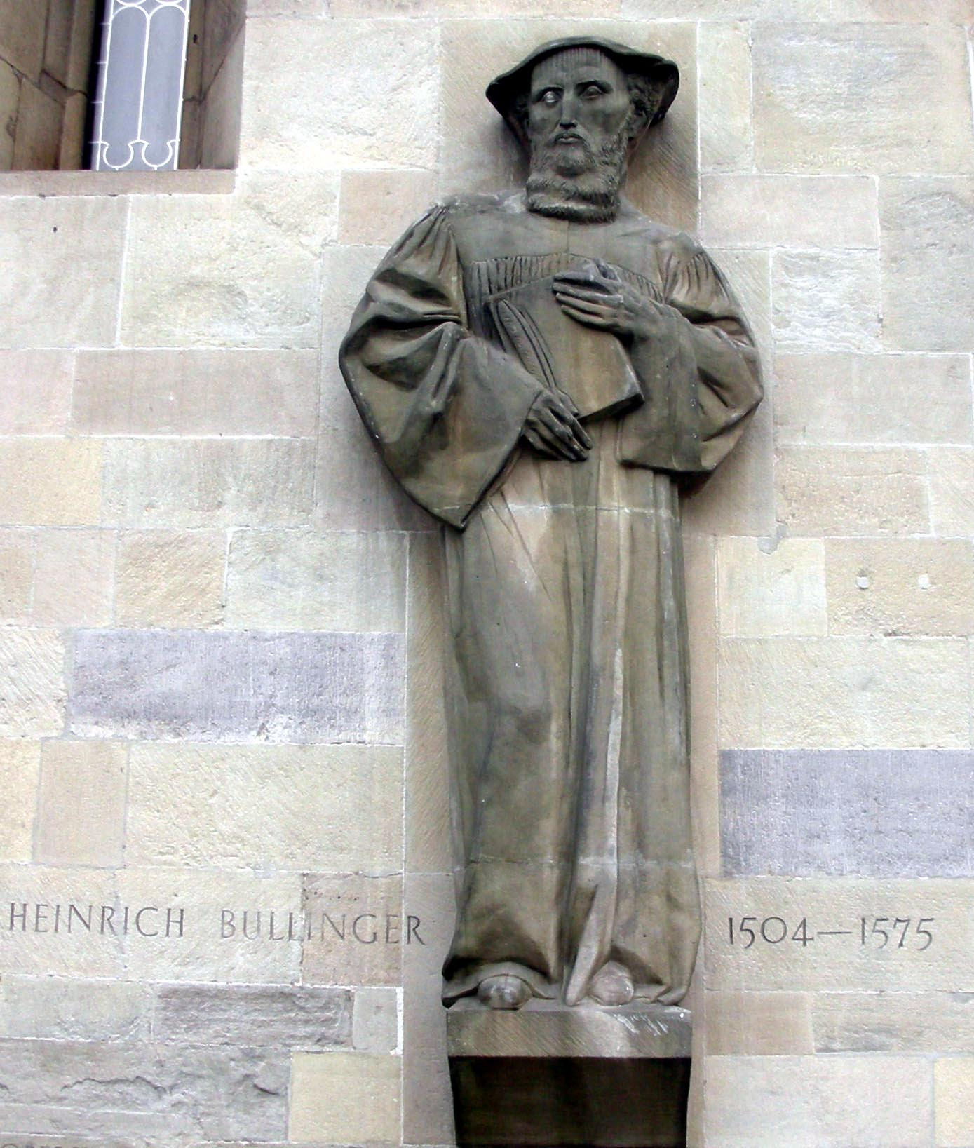 Monument to Heinrich Bullinger on the facade of Grossmünster, Zürich (sculpture by Otto Charles Bänninger, 1940) Bullinger was antistes of the Reformed church in Zürich from the death of Zwingli at the Battle of Kappel in October 1531 until his own death in September 1575. North-eastern exterior wall (wall of northeastern tower) of the Grossmünster Church in Zurich. Photograph by Glenn Johnson, September 2, 2006, taken with a Nikon Coolpix S6. Original image cropped and altered with Photoshop Auto Levels, and brightness/contrast adjustments only. Uploaded by the photographer.